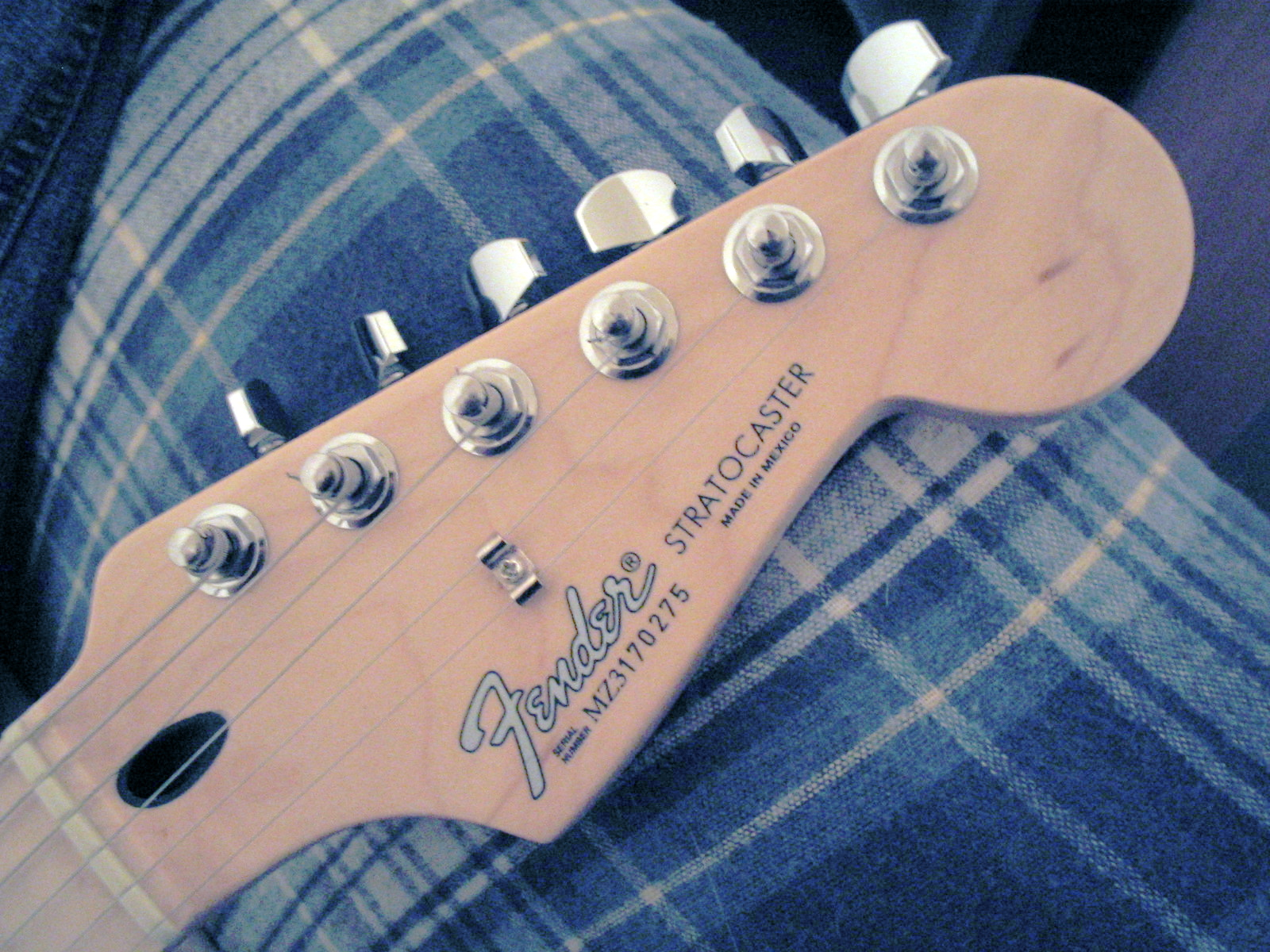 Headstock on my 2003 MiM Fender Strat